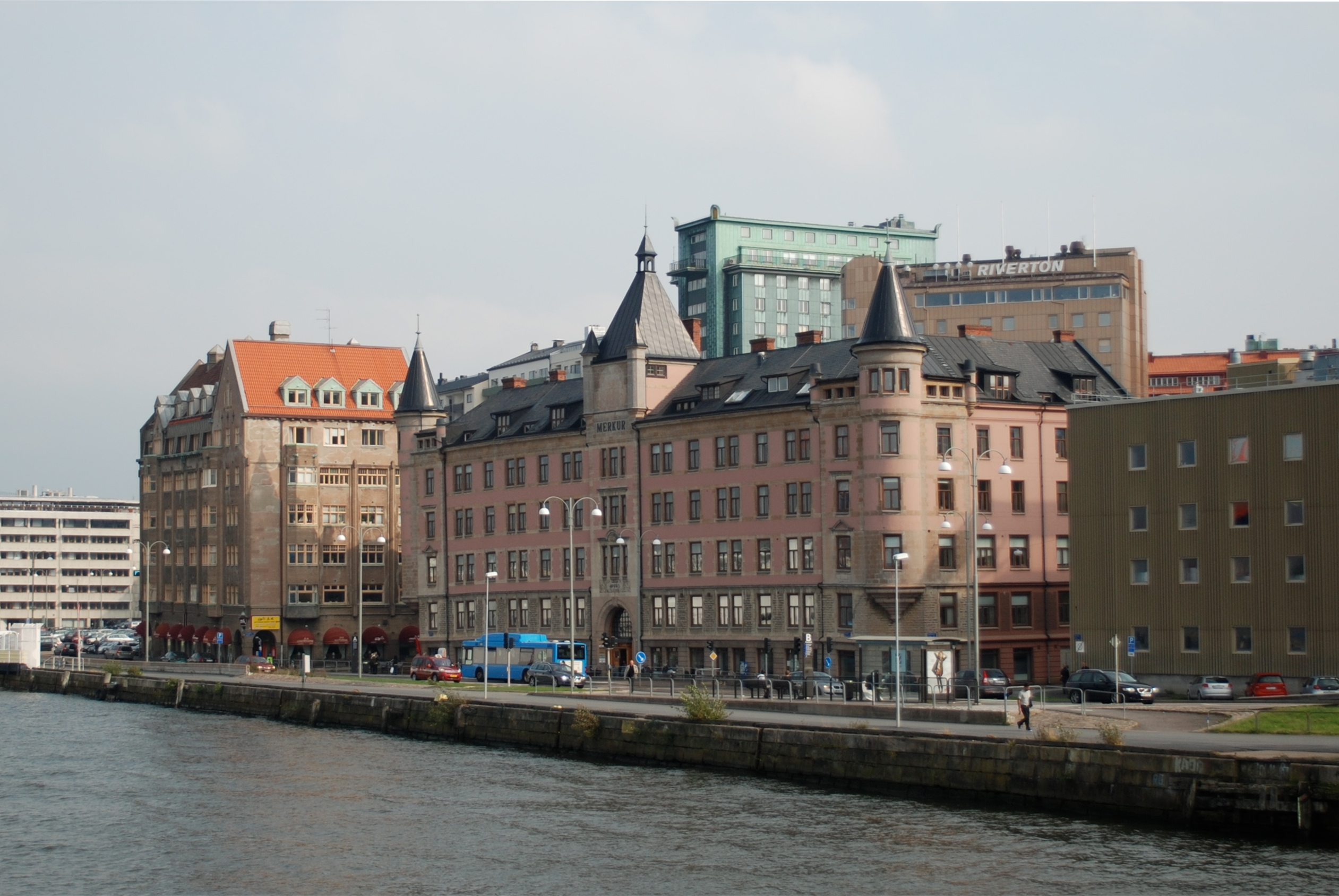 Skeppsbron, Göteborg.